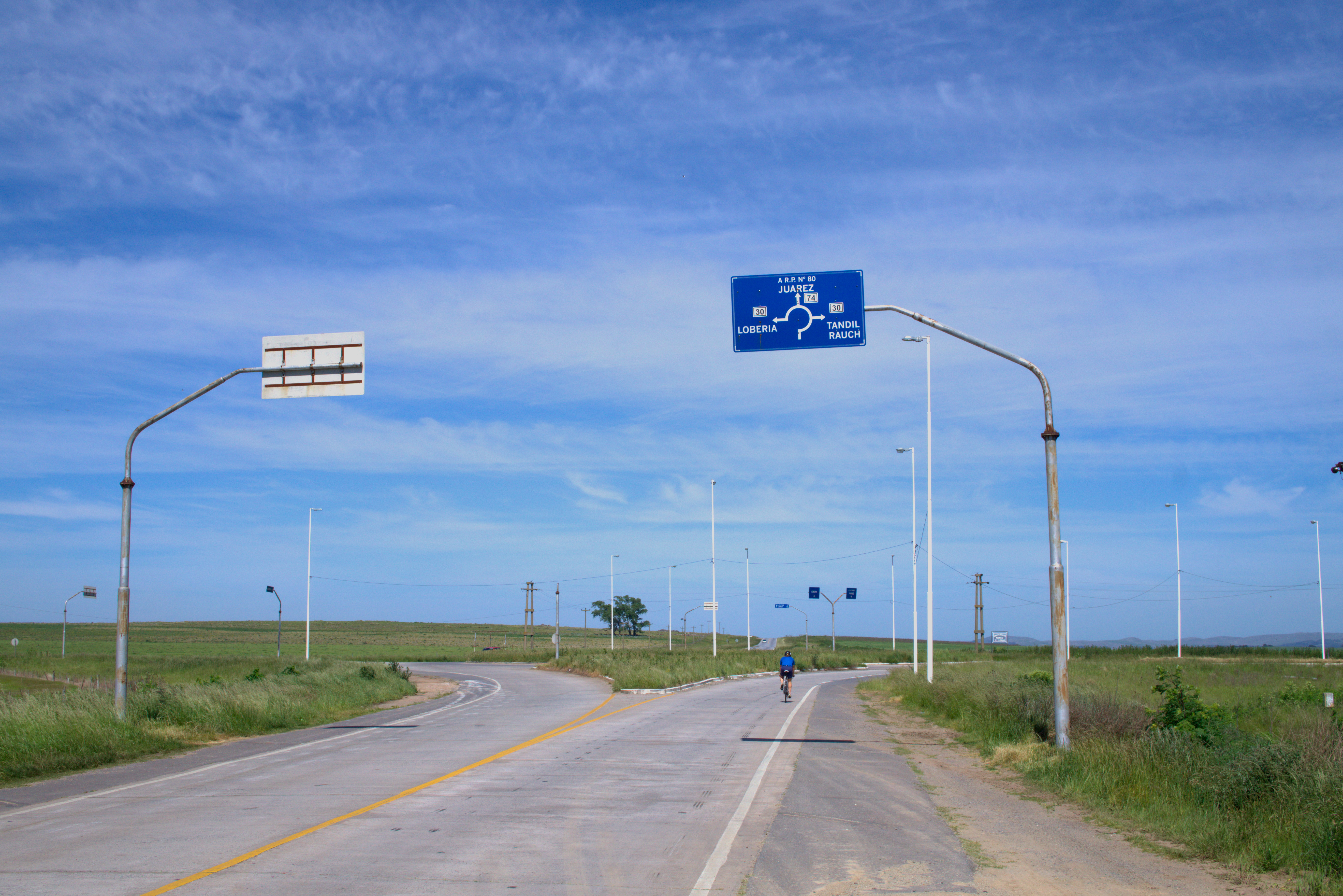 Splice Route 74 and Route 30, Tandil, Argentina